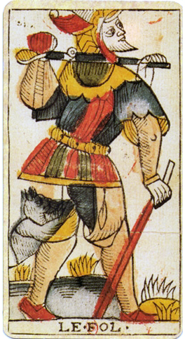 An original card from the tarot deck of Jean Dodal of Lyon, a classic Tarot of Marseilles deck which dates from 1701-1715.